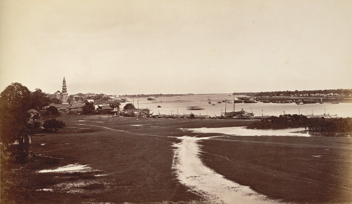 Photograph of Dacca (Dhaka) taken in the 1880s, from an album 'Architectural Views of Dacca', containing 13 prints by Johnston and Hoffman. View looking along the river Buriganga towards the city of Dhaka situated on the left bank. A Hindu temple tower stands at the water's edge.